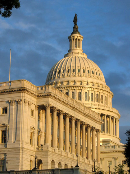 The Capitol in the late afternoon.Capitol